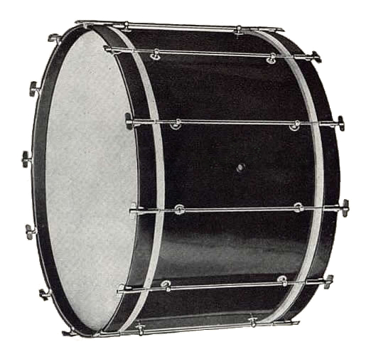 Image from the catalog 'Ludwig drums and accesories' by the Ludwig Drum Company. The New Inspiration Model Bass Drum, with separate tension, calf heads, ebony finished shell and hoops, and gold plated rods.